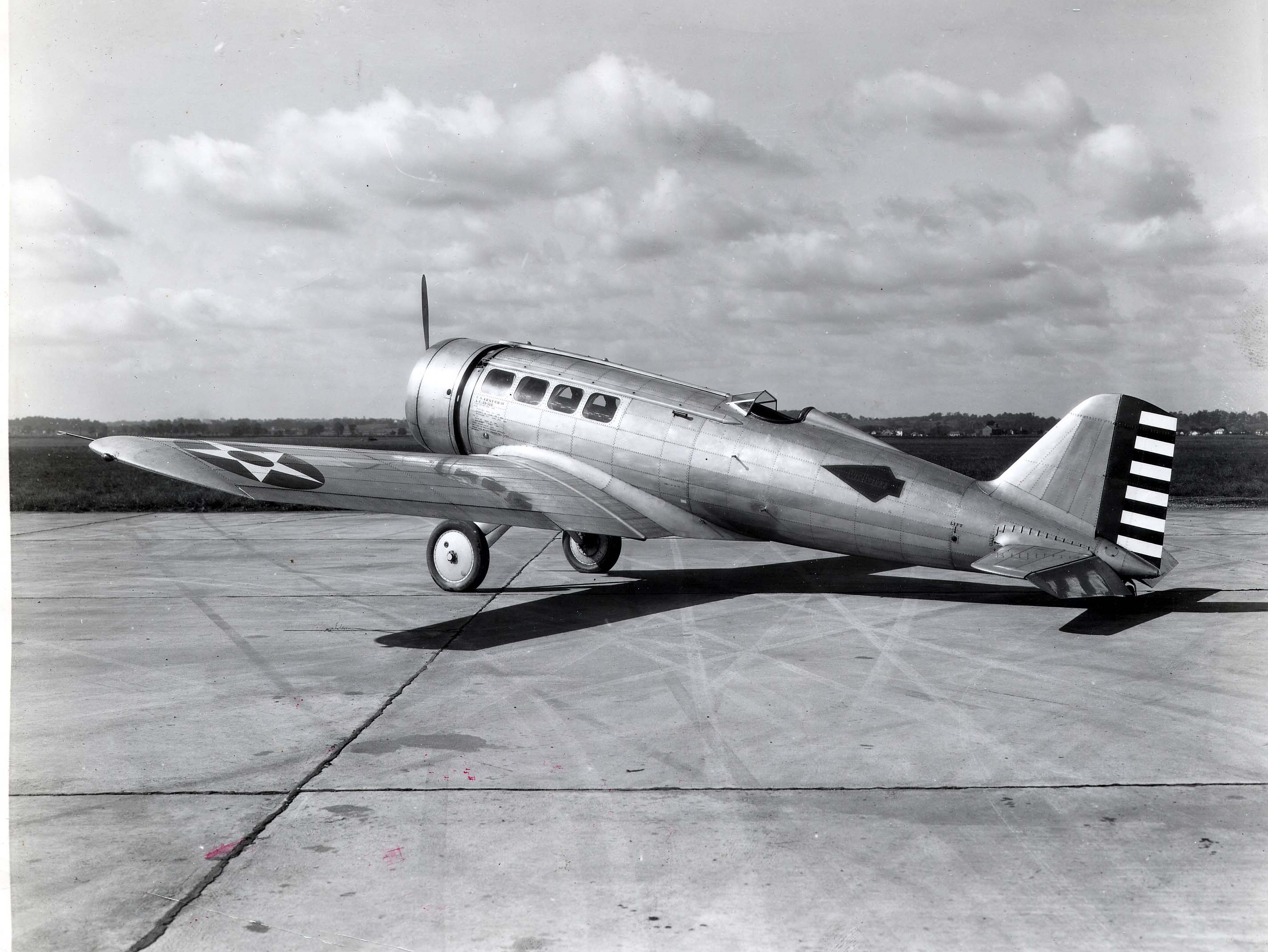 Northrop Y1C-19 (Northrop Alpha), photo USAF Museum Archives